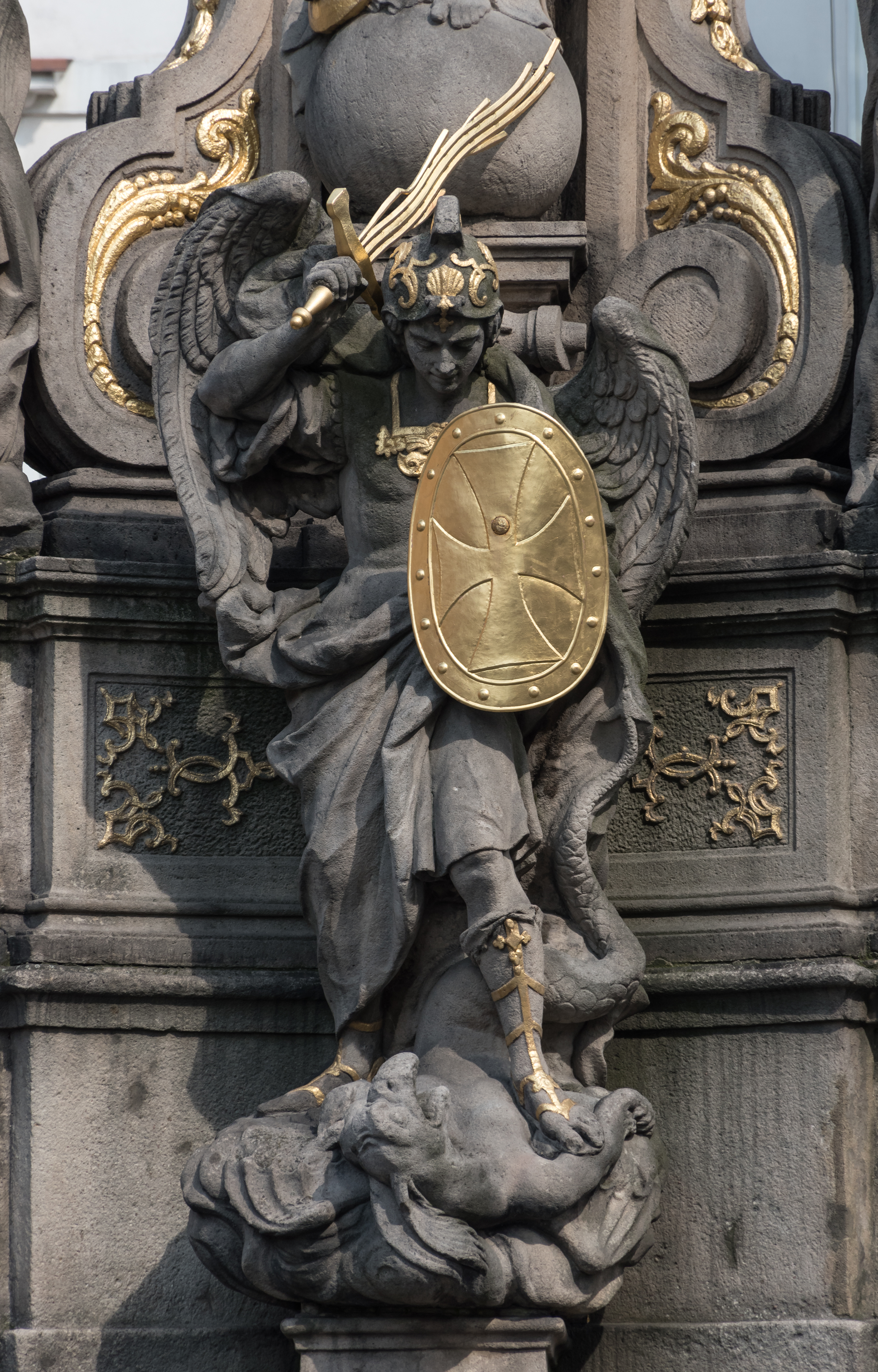 Trinity Column in Bystrzyca Kłodzka, St. Michael with dragon